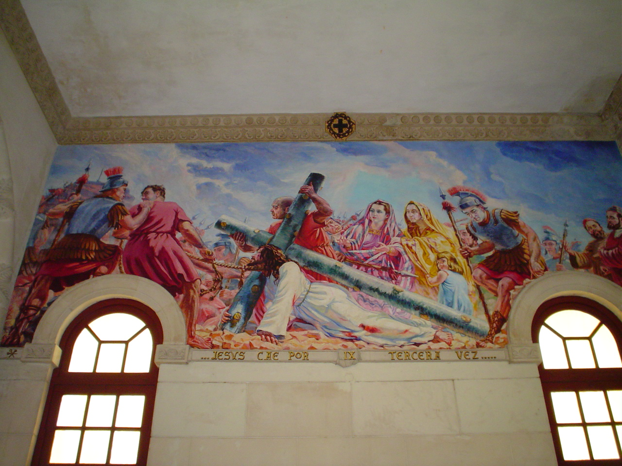 Painting of Stations of the Cross in Iglesia de Jesús de Miramar in Havana